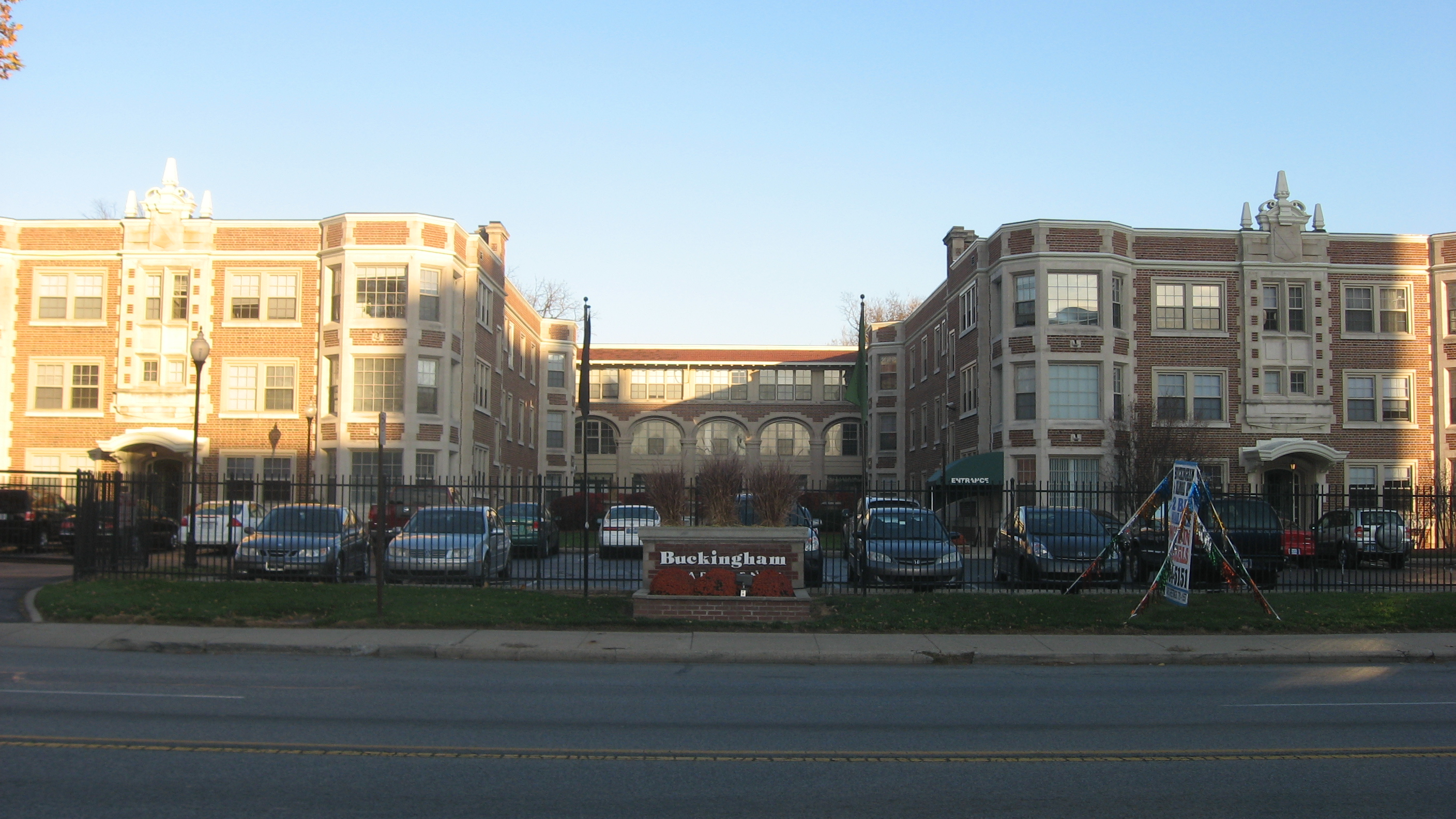 Front of The Buckingham, located at 3101-3119 N. Meridian Street in Indianapolis, Indiana, United States. Built in 1909, it is listed on the National Register of Historic Places.